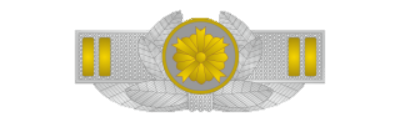 Brooch rank insigna for senior policeman of japanese police